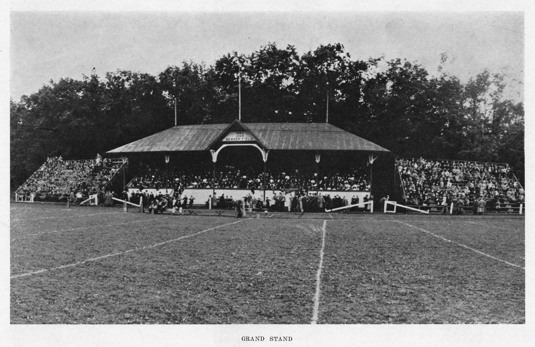 An image of Penn State football hosting Bucknell on Nov. 12, 1910, at New Beaver Field.